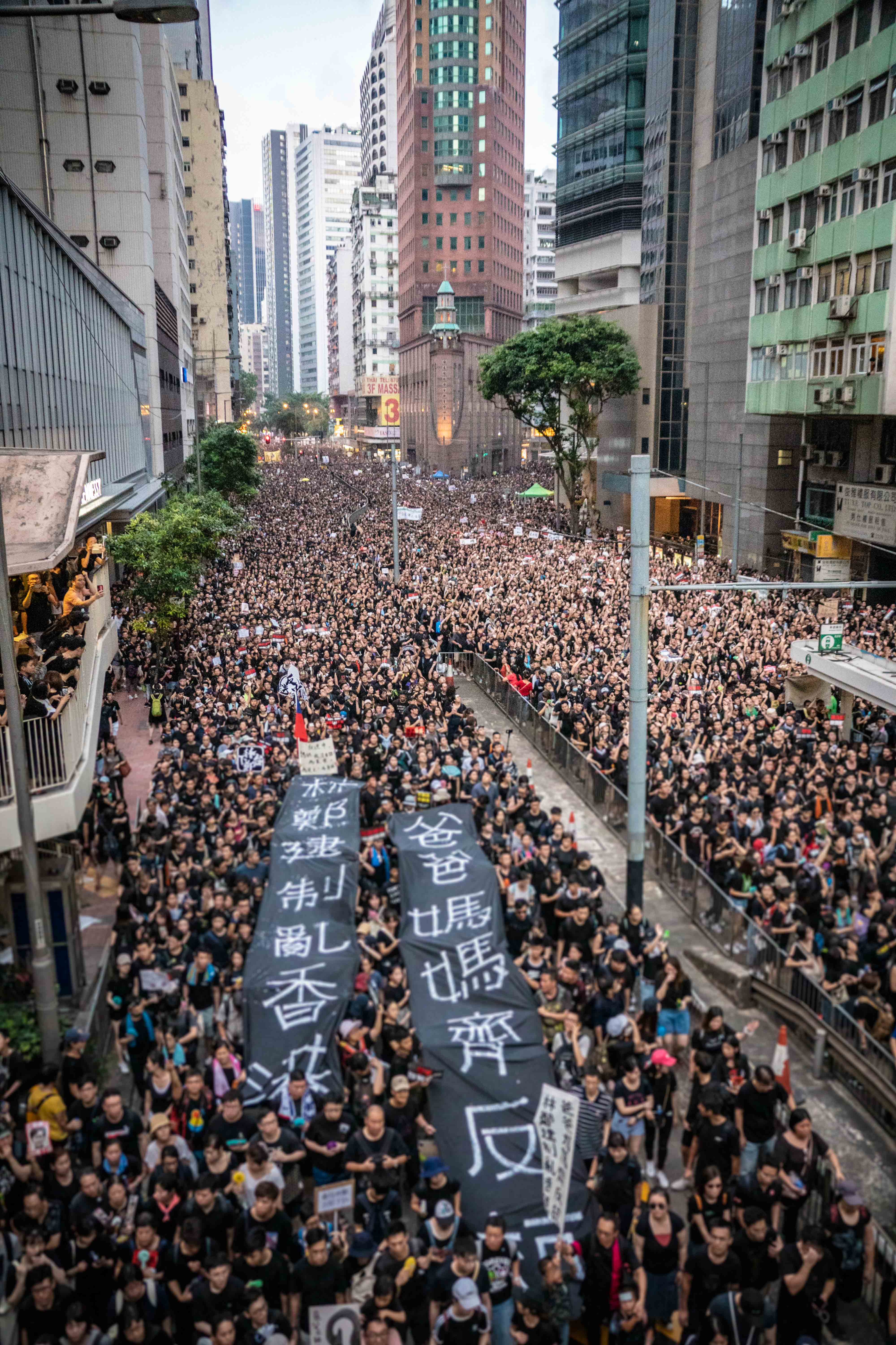 June 16 demonstration, at Arsenal Street, capturing Hennessy Road, Admiralty.